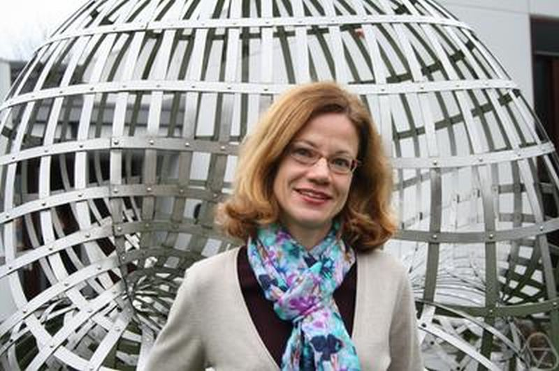 Annette Werner, Oberwolfach 2012